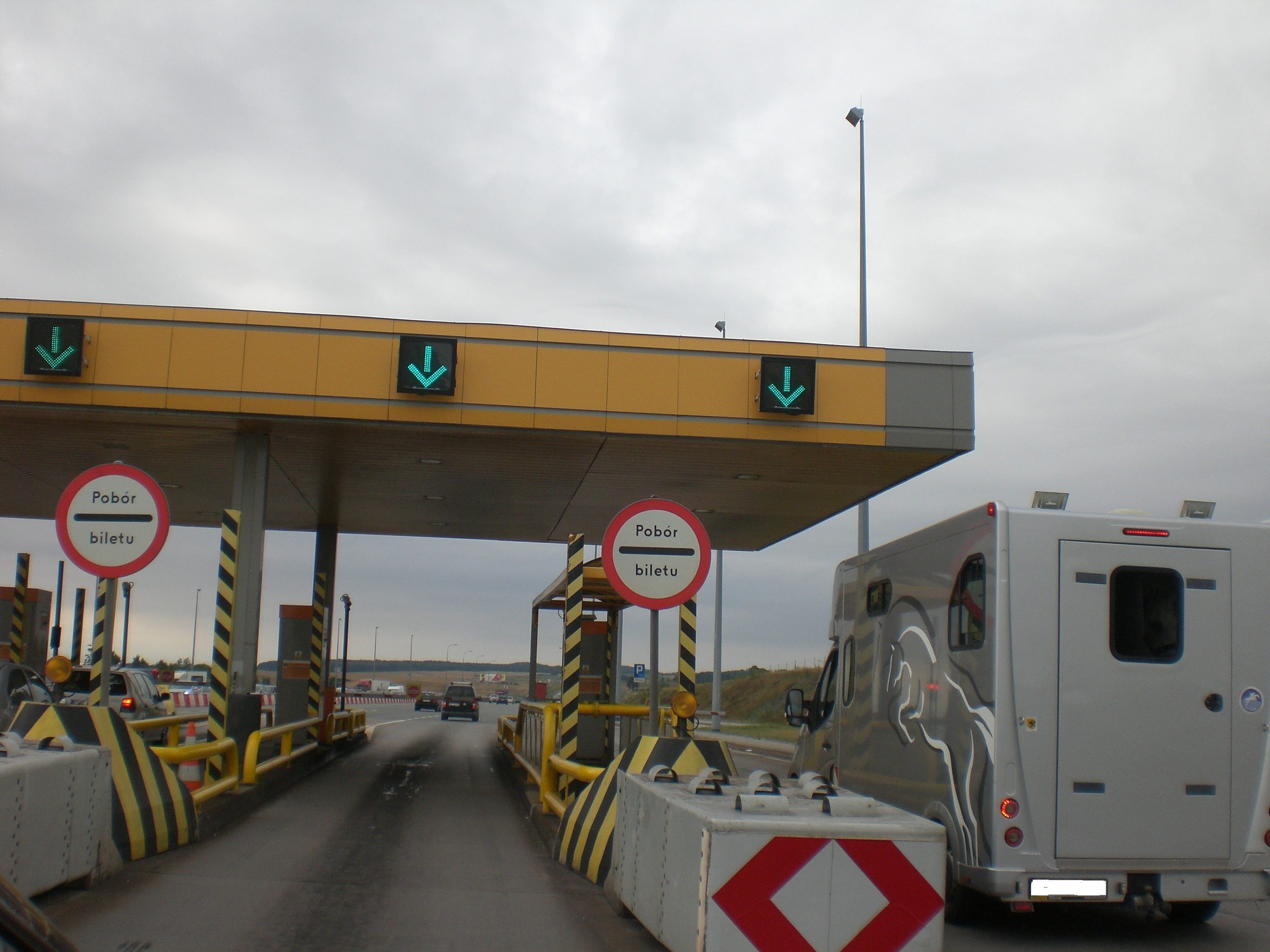 Motorway A1 in Rusocin, Poland